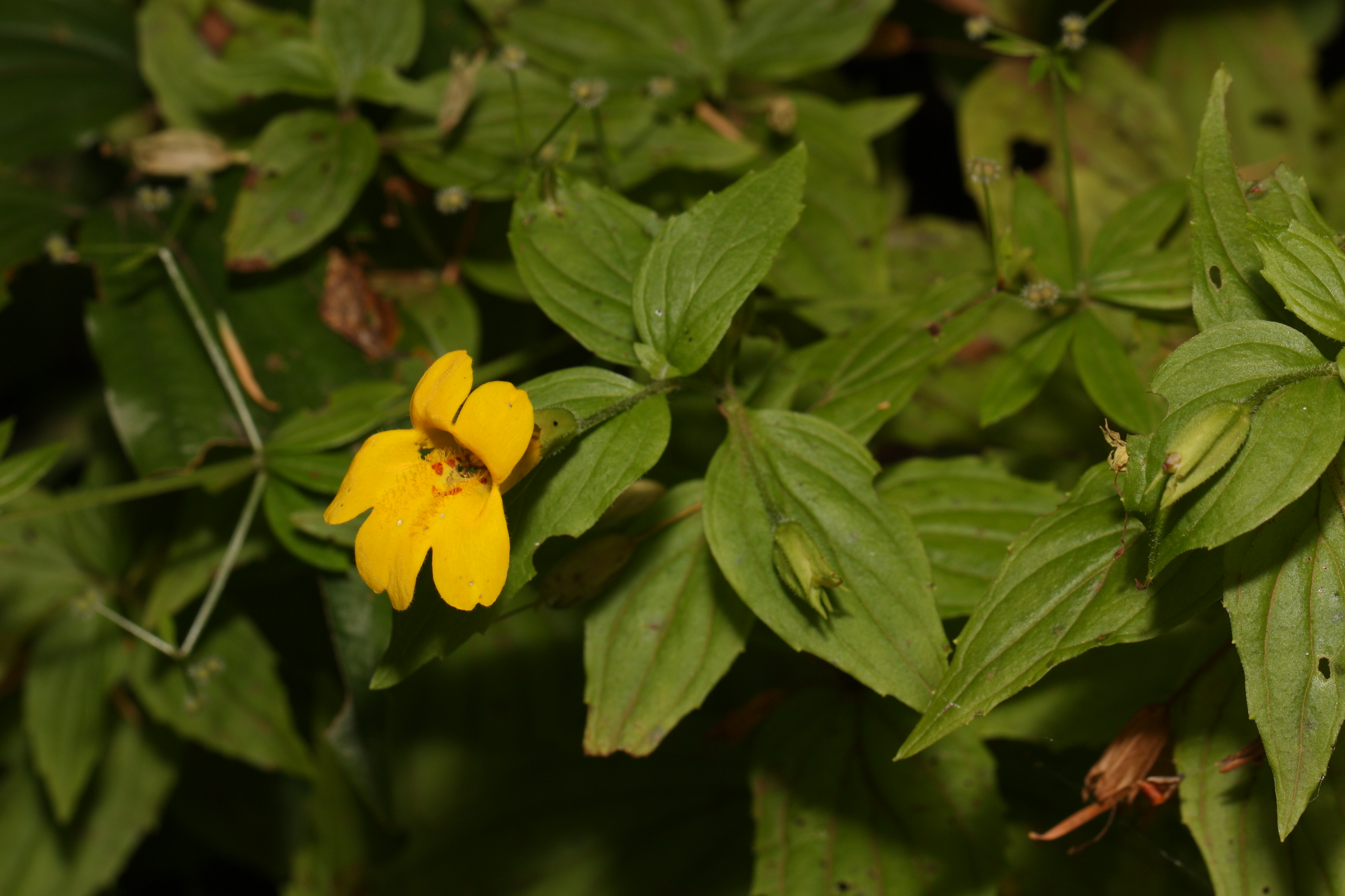 Coastal Monkey-flower, Tooth-leaved Mimulus